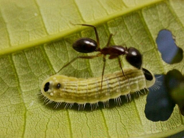 Lycaenid ant interaction, India